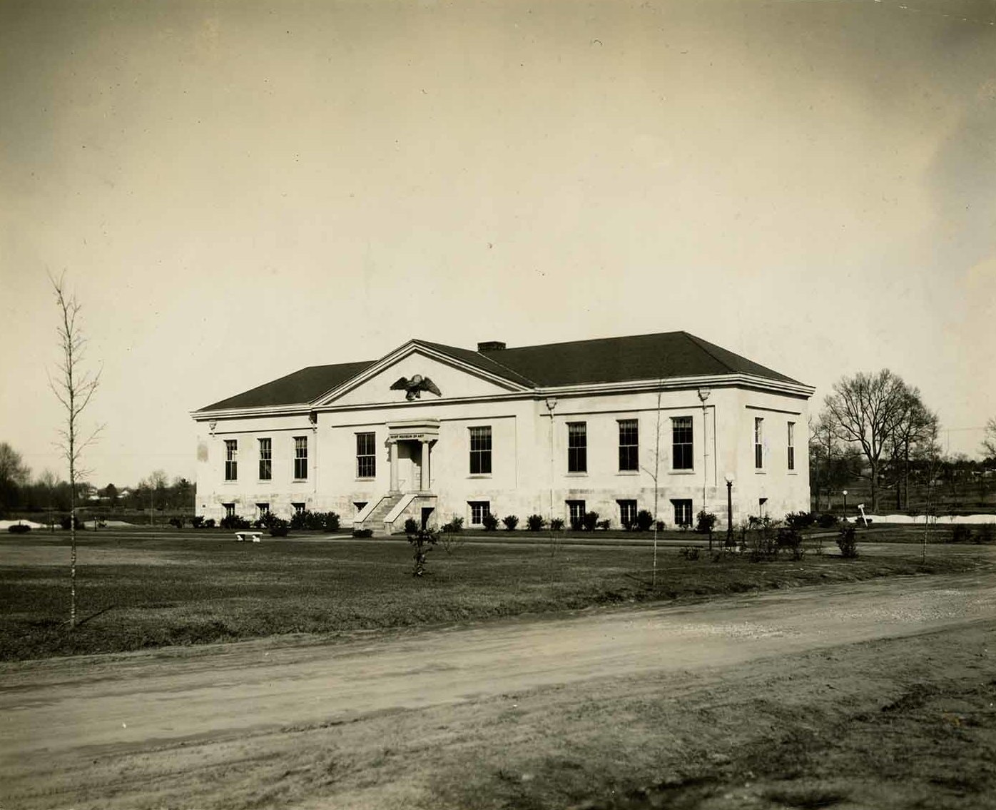 The Mint Museum of Art in Charlotte, NC opened on October 22, 1936 and was the first art museum in the state.